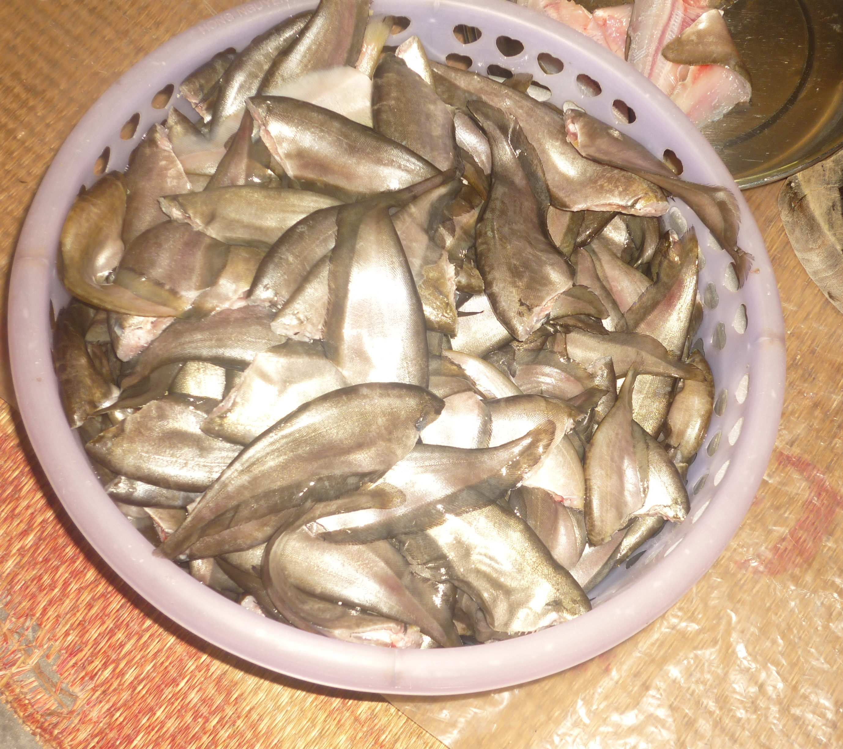 featherback fish from Lak lake